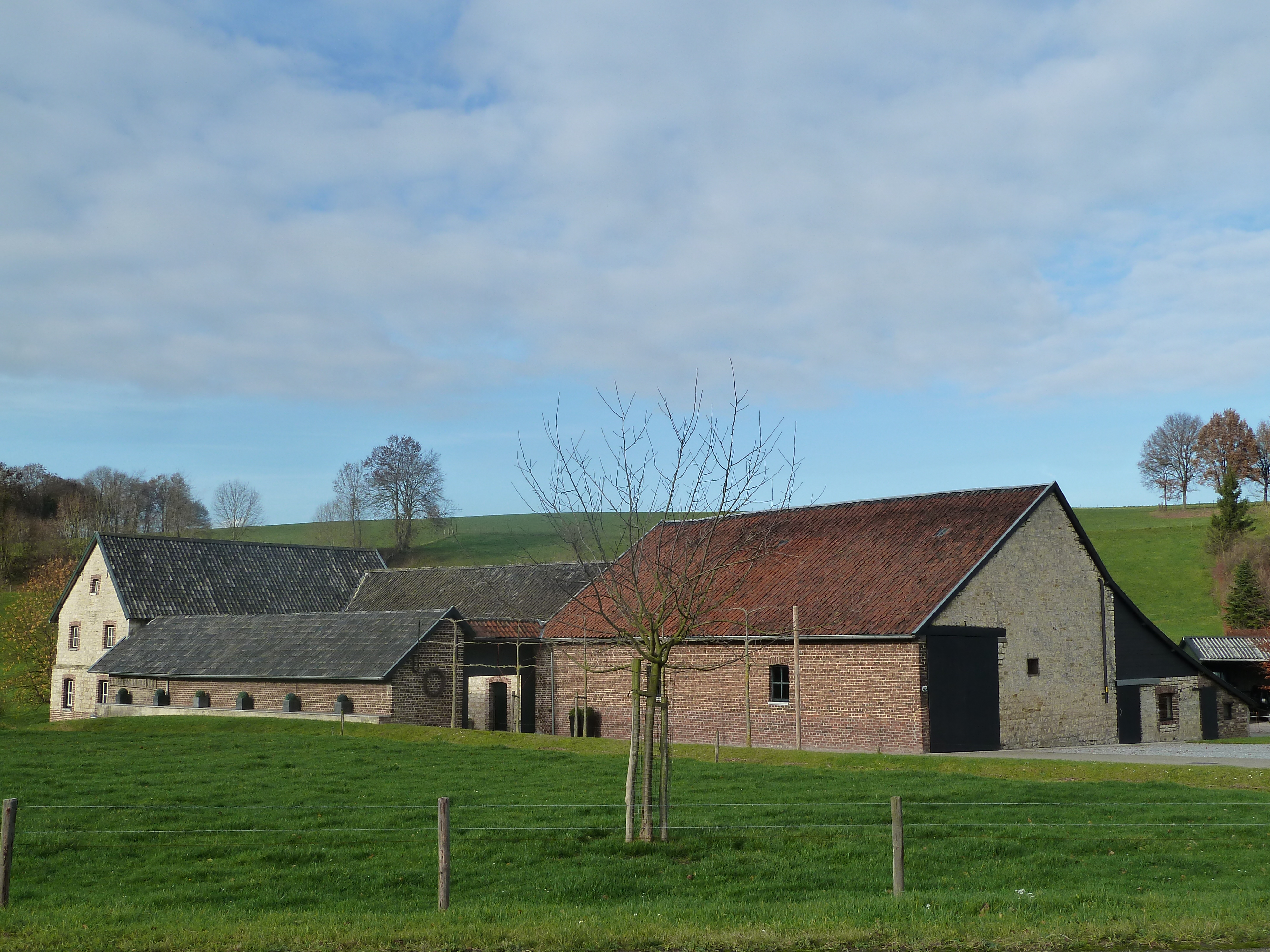 Bulkemsmolen, Simpelveld, Watermill, Limburg, Netherlands